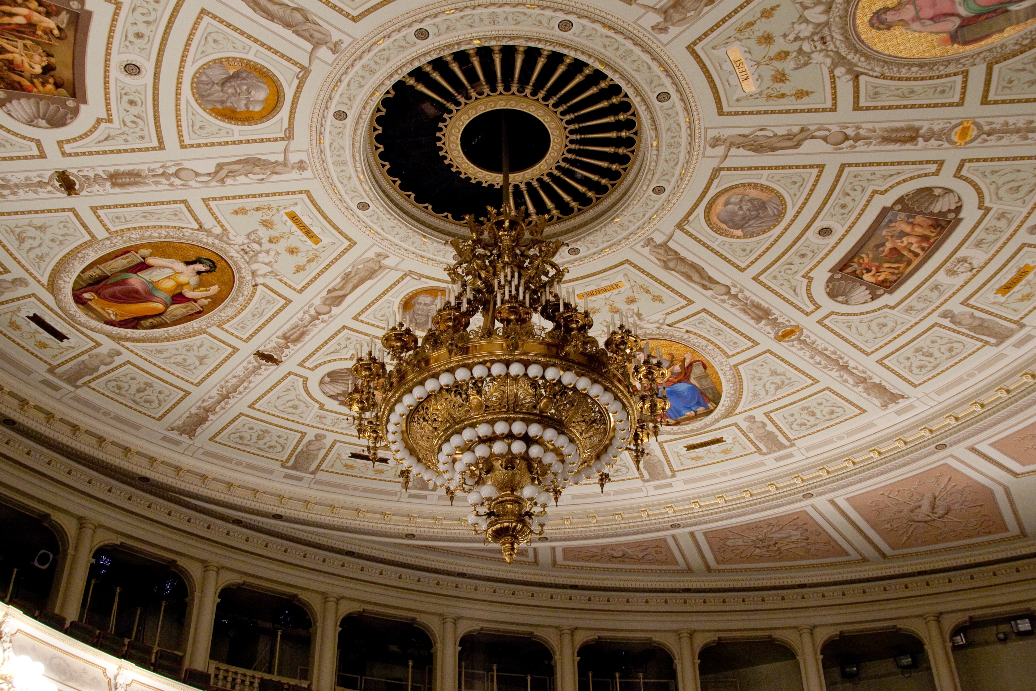 Interior of the Semperoper in Dresden. 51°3′16.3″N 13°44′6.5″E / 51.054528°N 13.735139°E